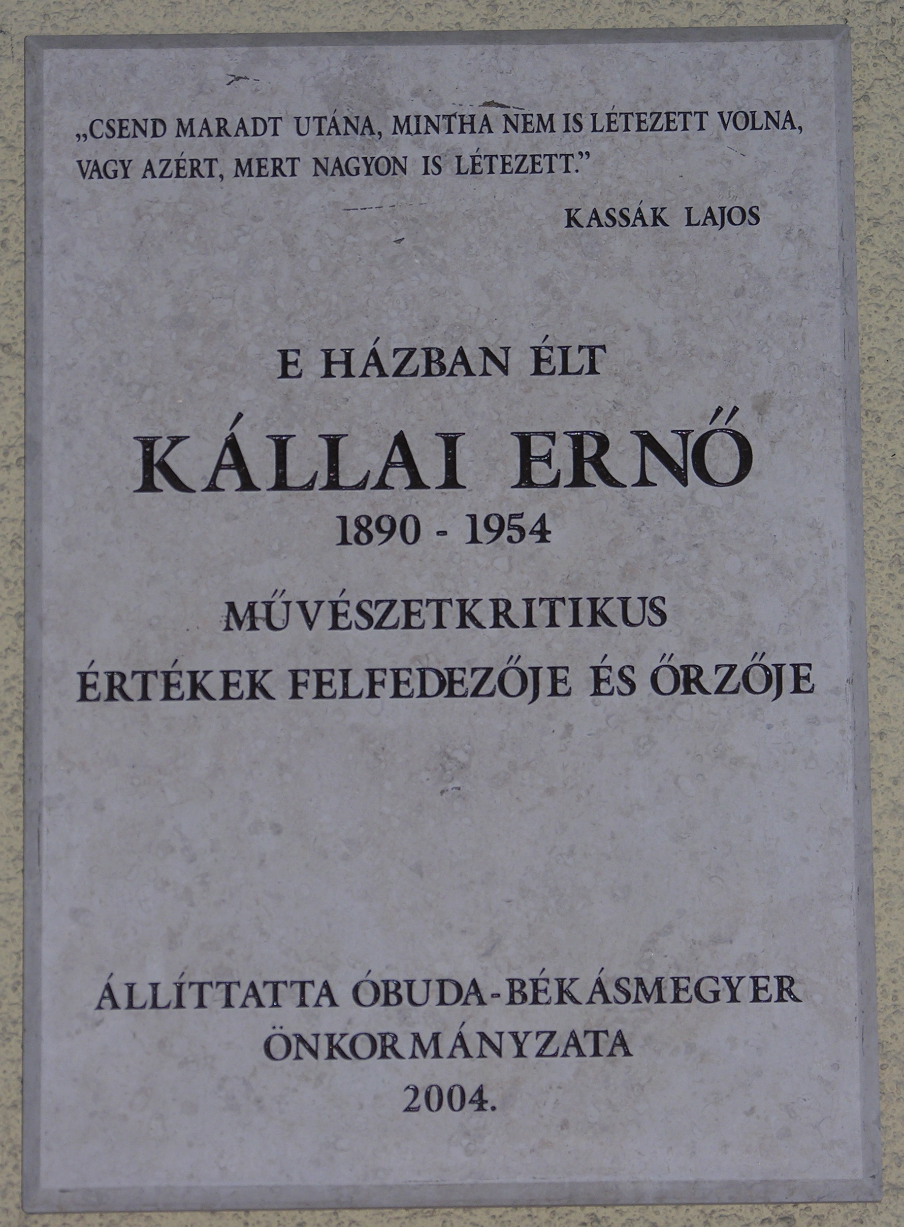 Commemorative plaque of Ernő Kállai (1890-1954) in Budapest District III, Kiscelli Street No 76